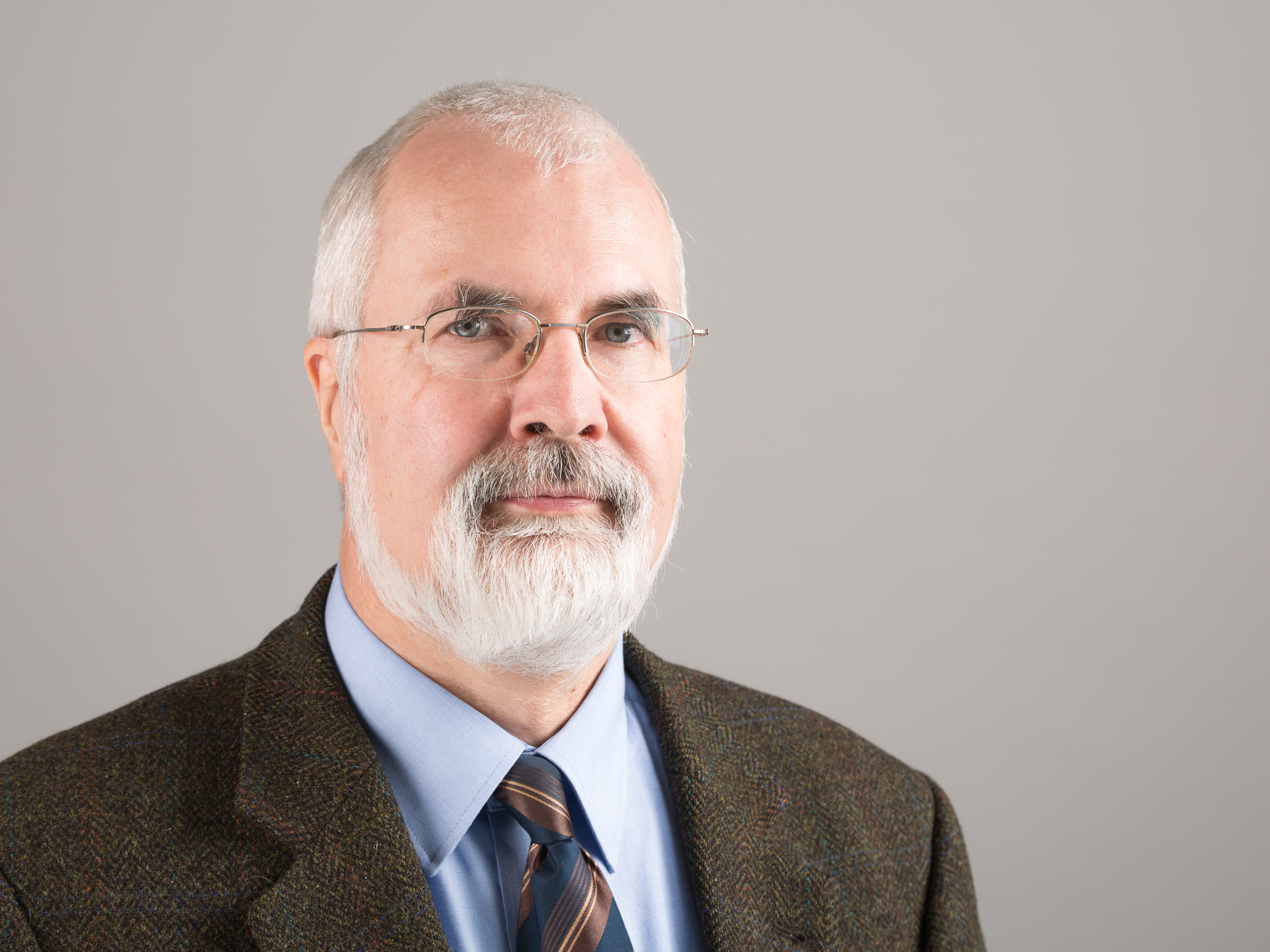 Andreas Schurig, a German mathematician, theologian and expert for privacy protection